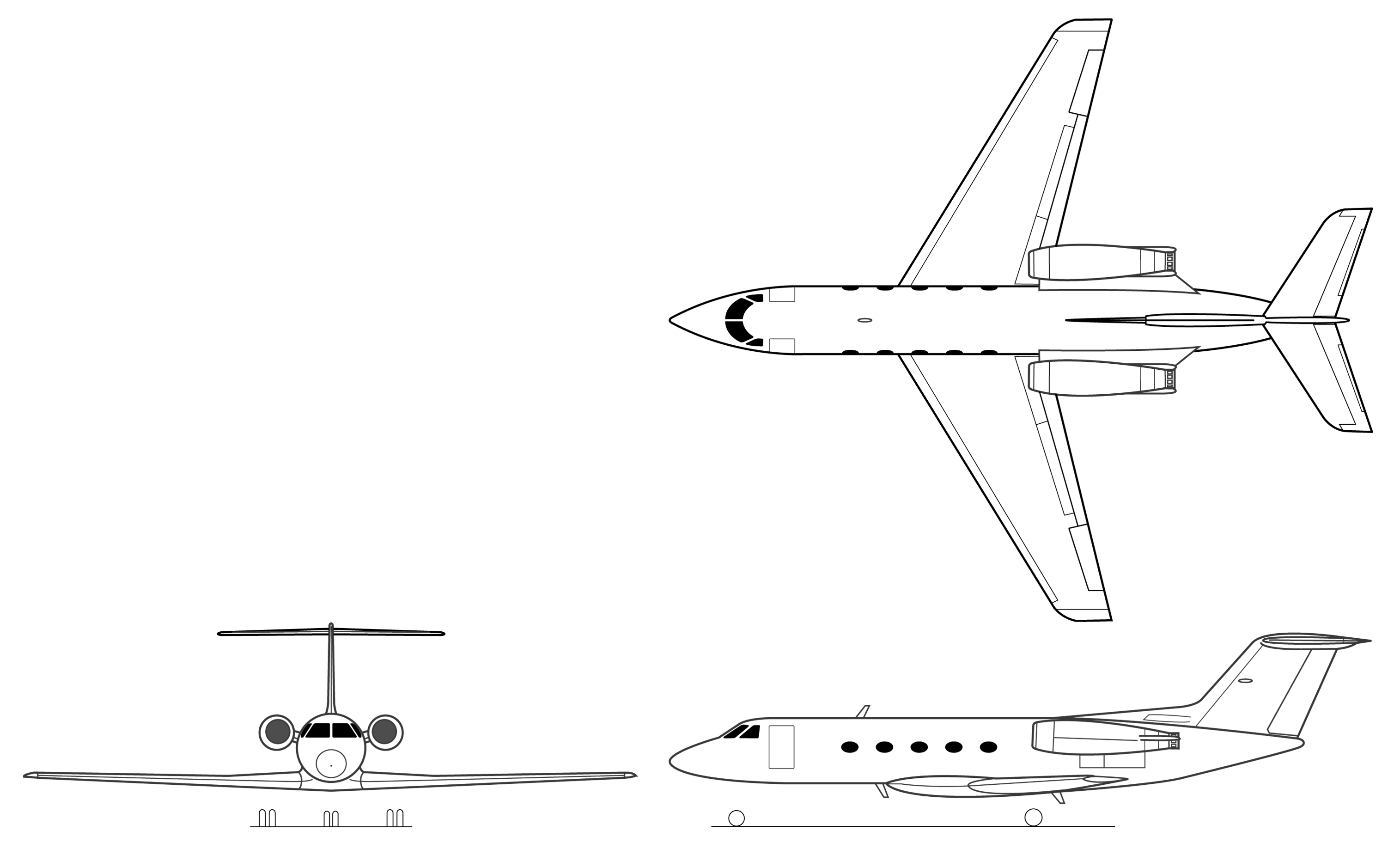 Gulfstream II 3-view line art